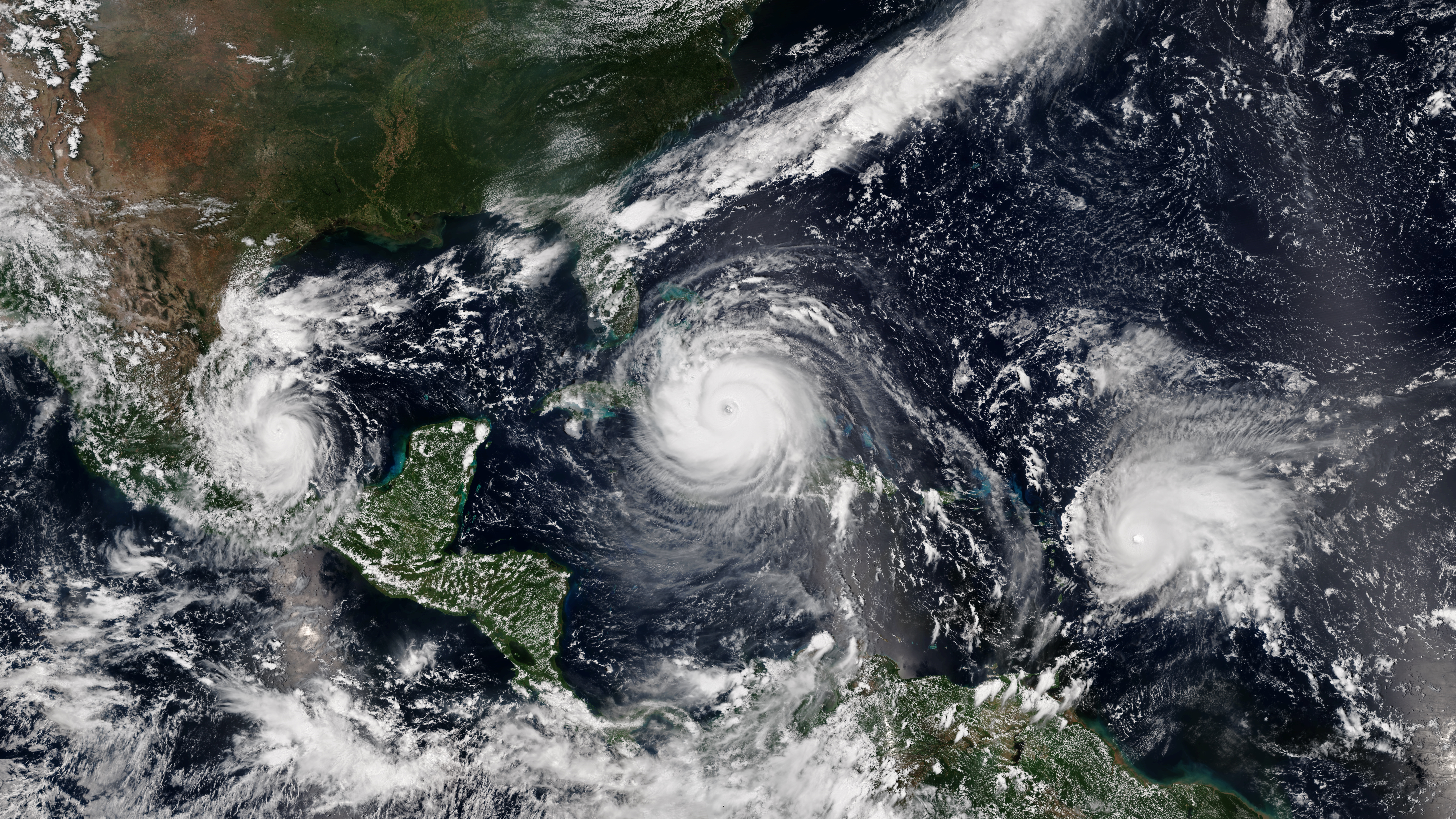 Satellite image of Hurricane Katia (left) making landfall over the Mexican state of Veracruz, Hurricane Irma (center) approaching Cuba, and Hurricane Jose reaching peak intensity on September 8, 2017.